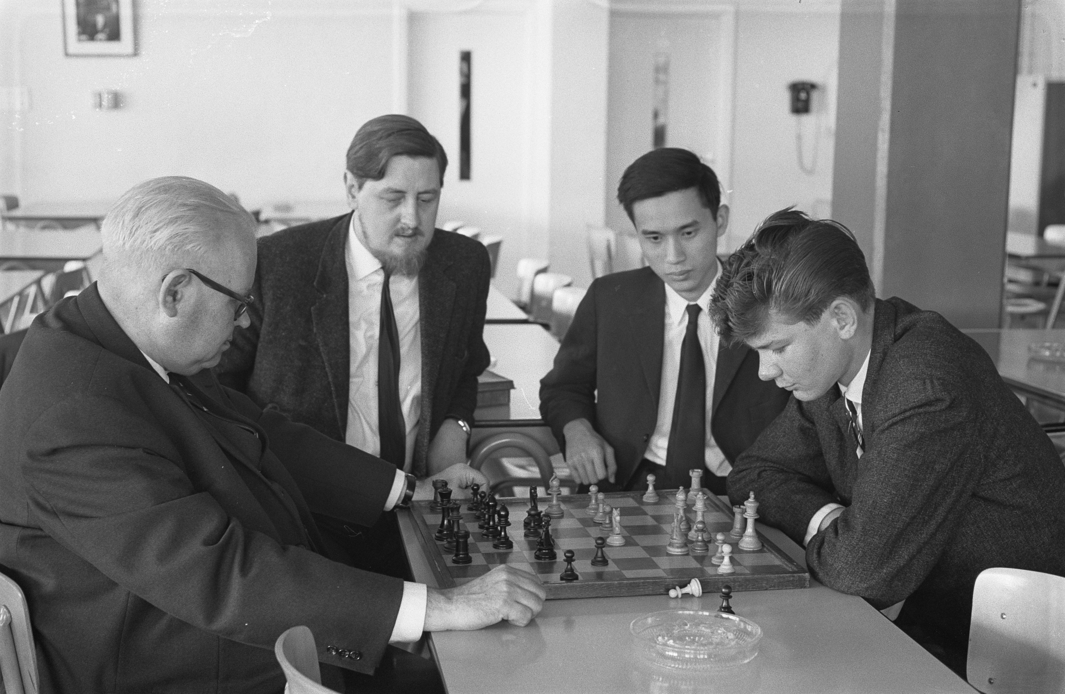 IBM Chess Tournament 1962 Amsterdam, Ludwig Rellstab , Hein Donner, H.L. Tan and Robbie Hartoch (15 years old)